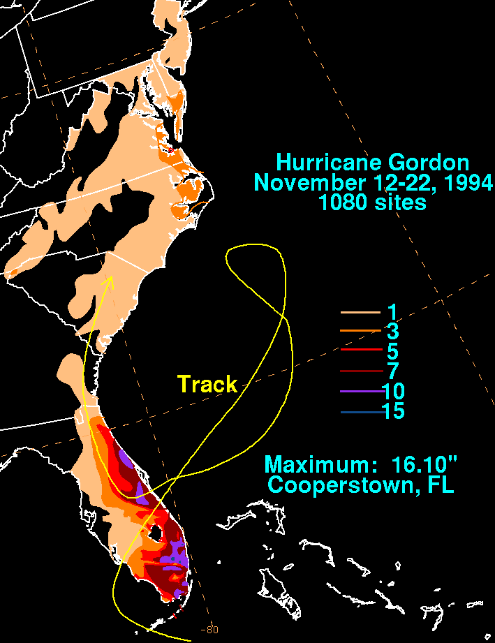 Rainfall produced by Hurricane Gordon during November 1994.